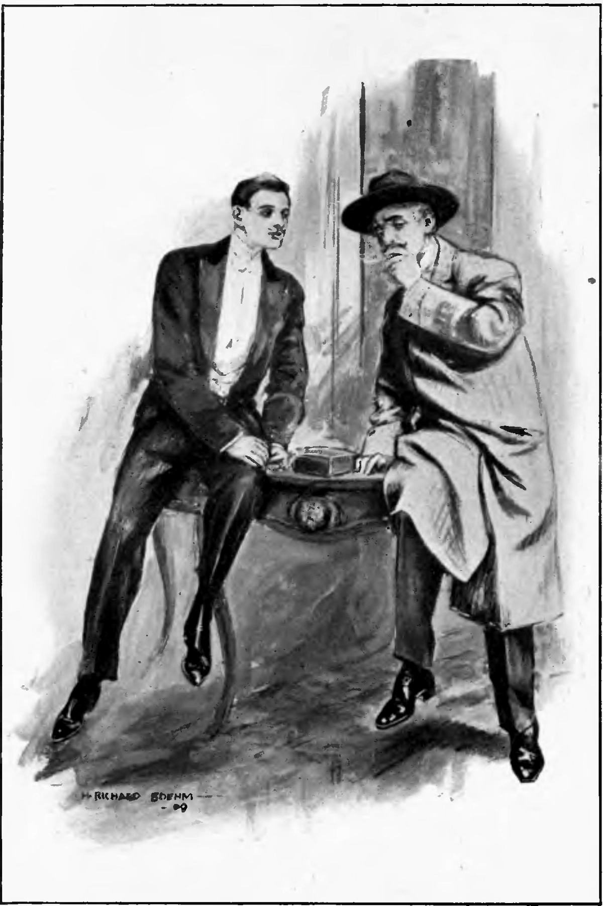 Illustrations from the book, Arsène Lupin, written by Maurice Lebanc, illustrated by H. Richard Boehm